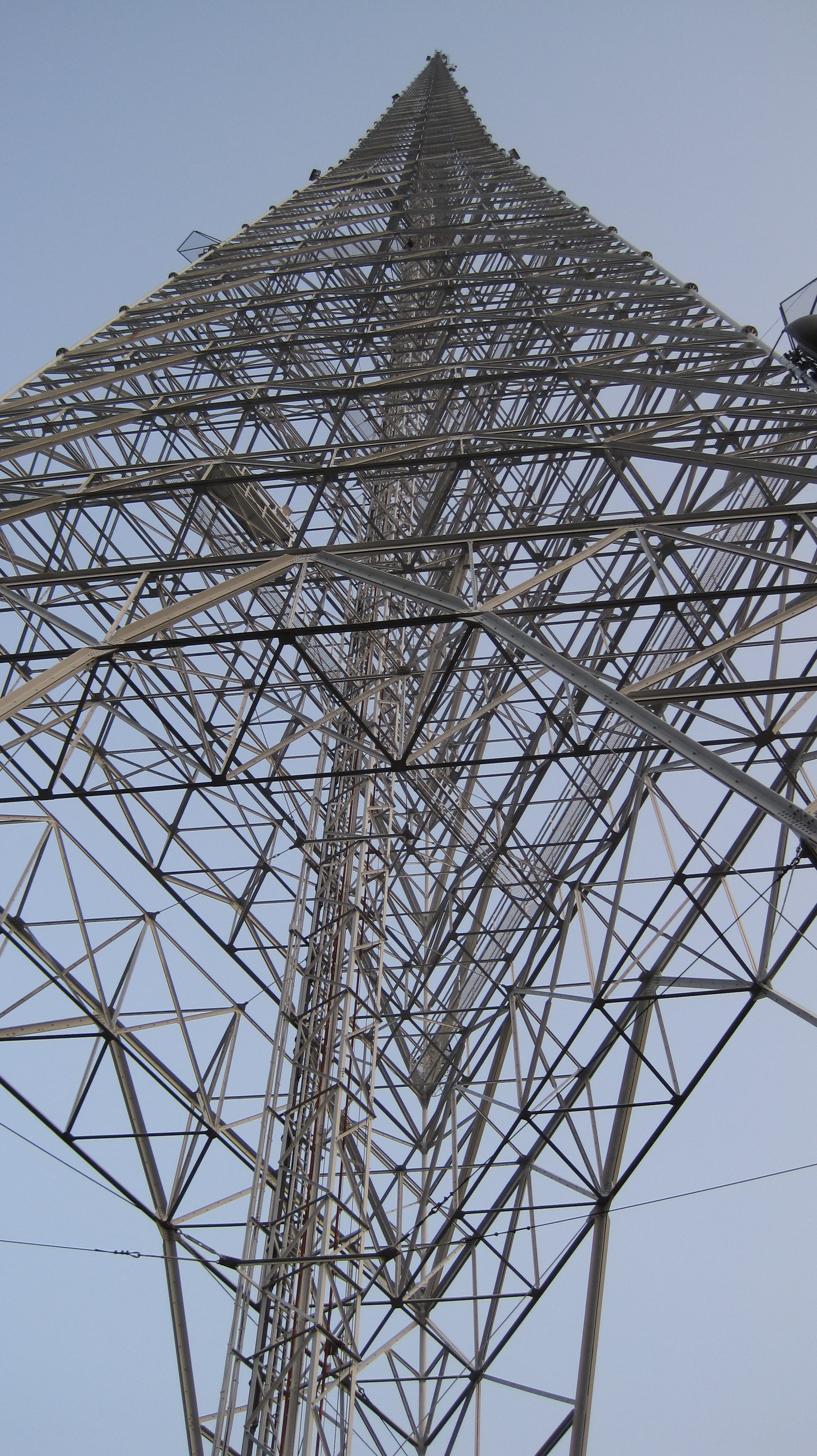 The WITI TV Tower along the Oak Leaf Trail, just north of Capitol Drive in Shorewood, Wisconsin (north of the city of Milwaukee).